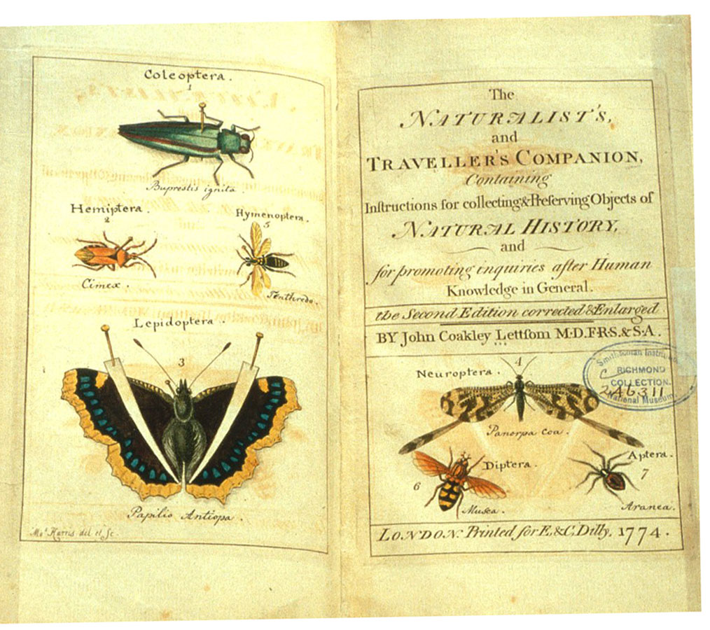 Pages from The naturalist's and traveler's companion, containing instructions for collecting and preserving objects of natural history and for promoting inquiries after human knowledge in general.